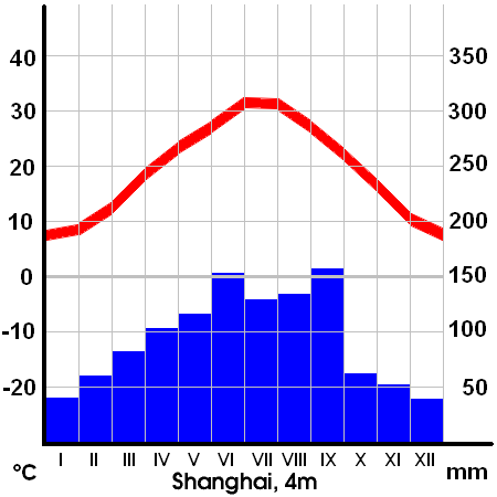 Shanhai max temperature and rainfall. data